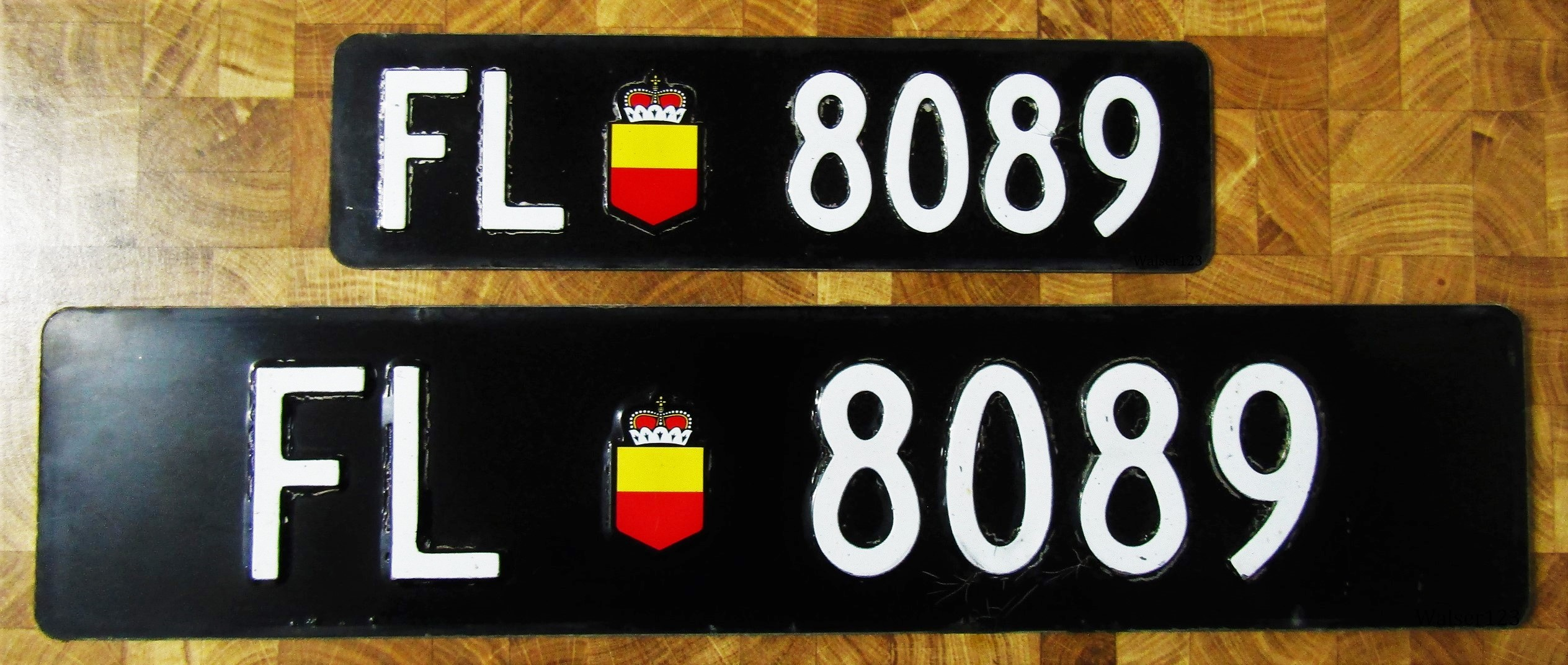 Liechtenstein license plate format since 1972, 30 × 8 cm (front), 50 × 11 cm (rear)